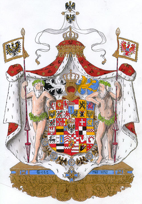 Coat of arms of Prussia, from 1708 date QS:P,+1708-00-00T00:00:00Z/7,P580,+1708-00-00T00:00:00Z/9